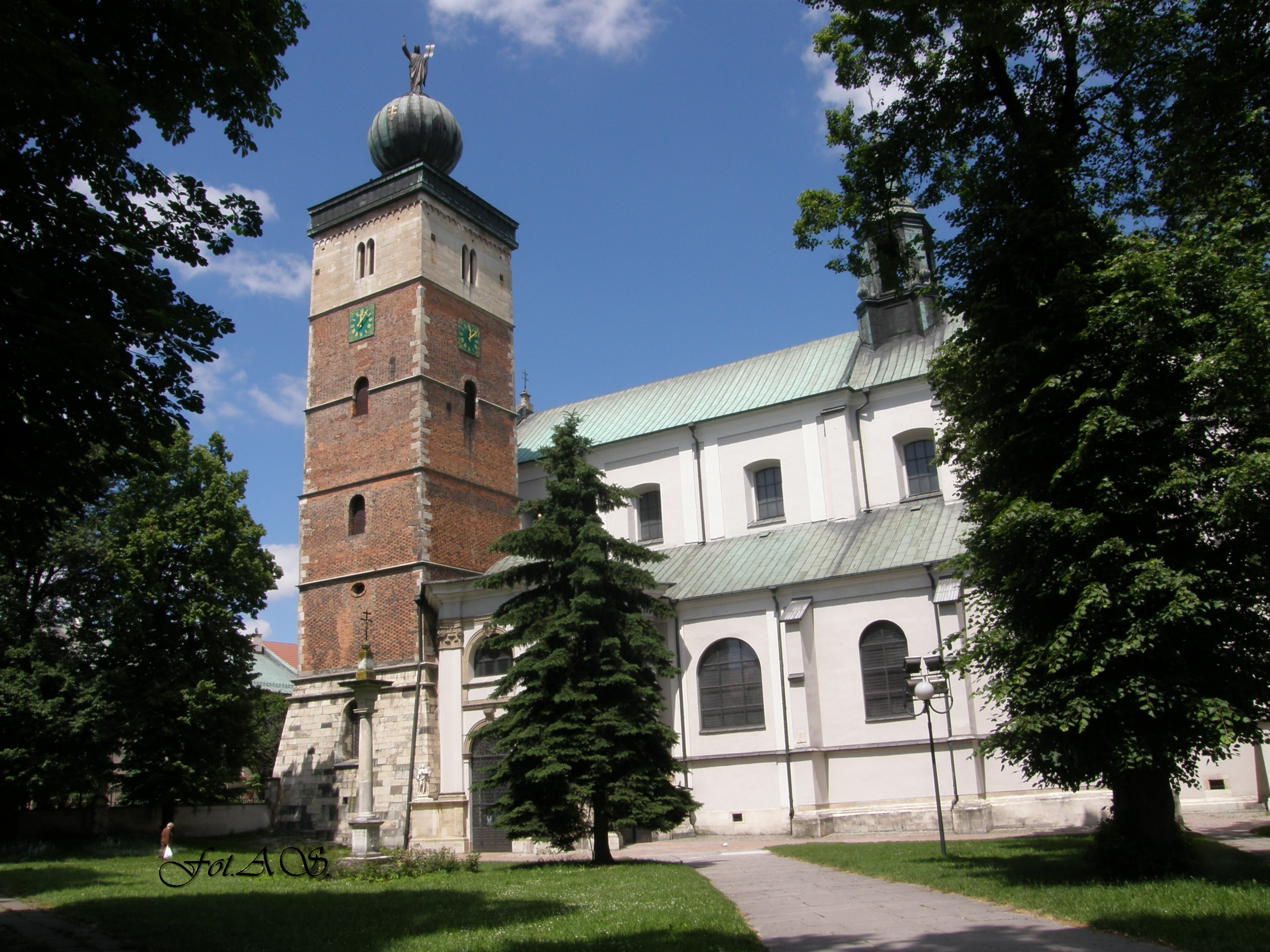 Basilica of the Holy Sepulchre in Miechów